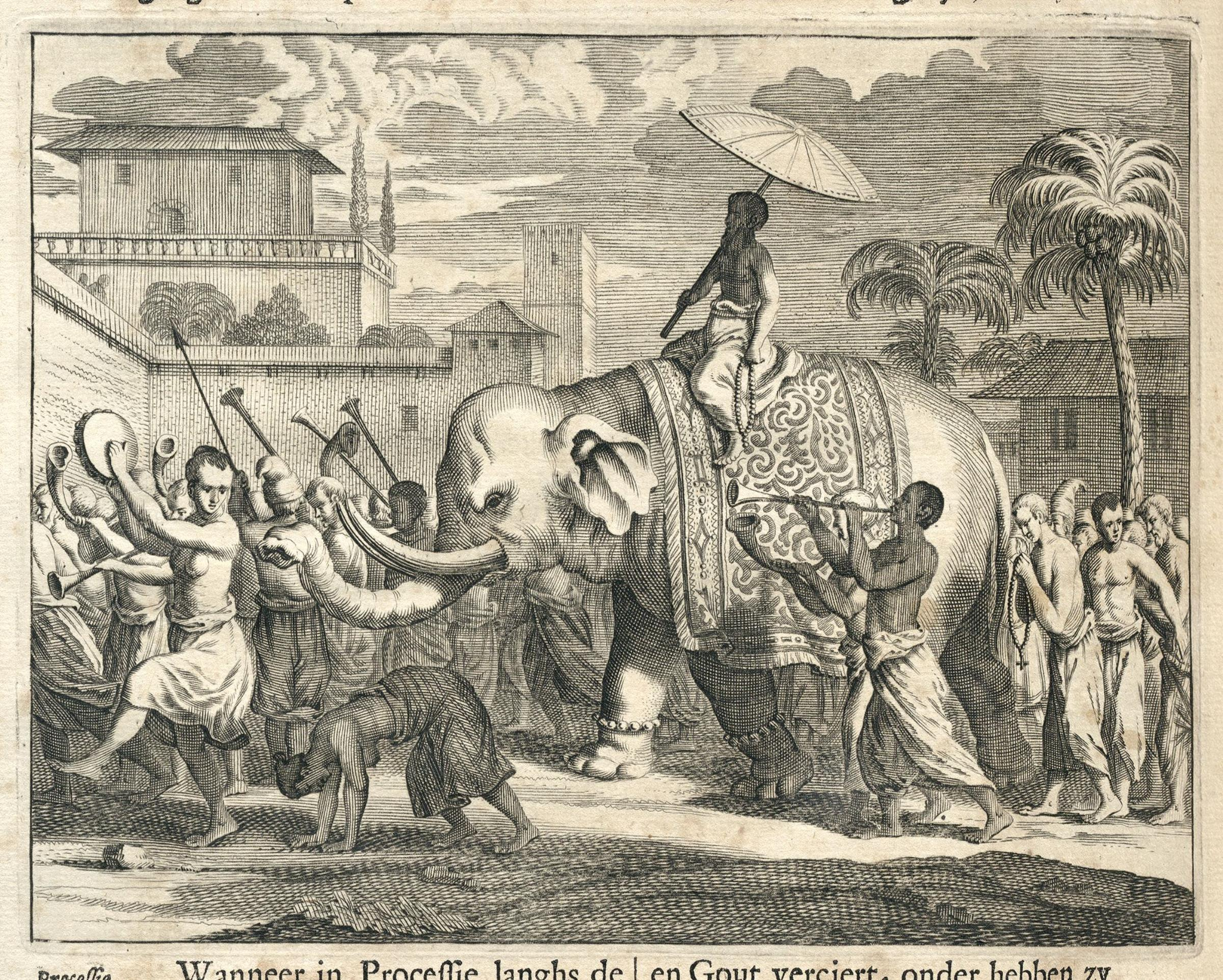 Procession of monks on Ceylon.